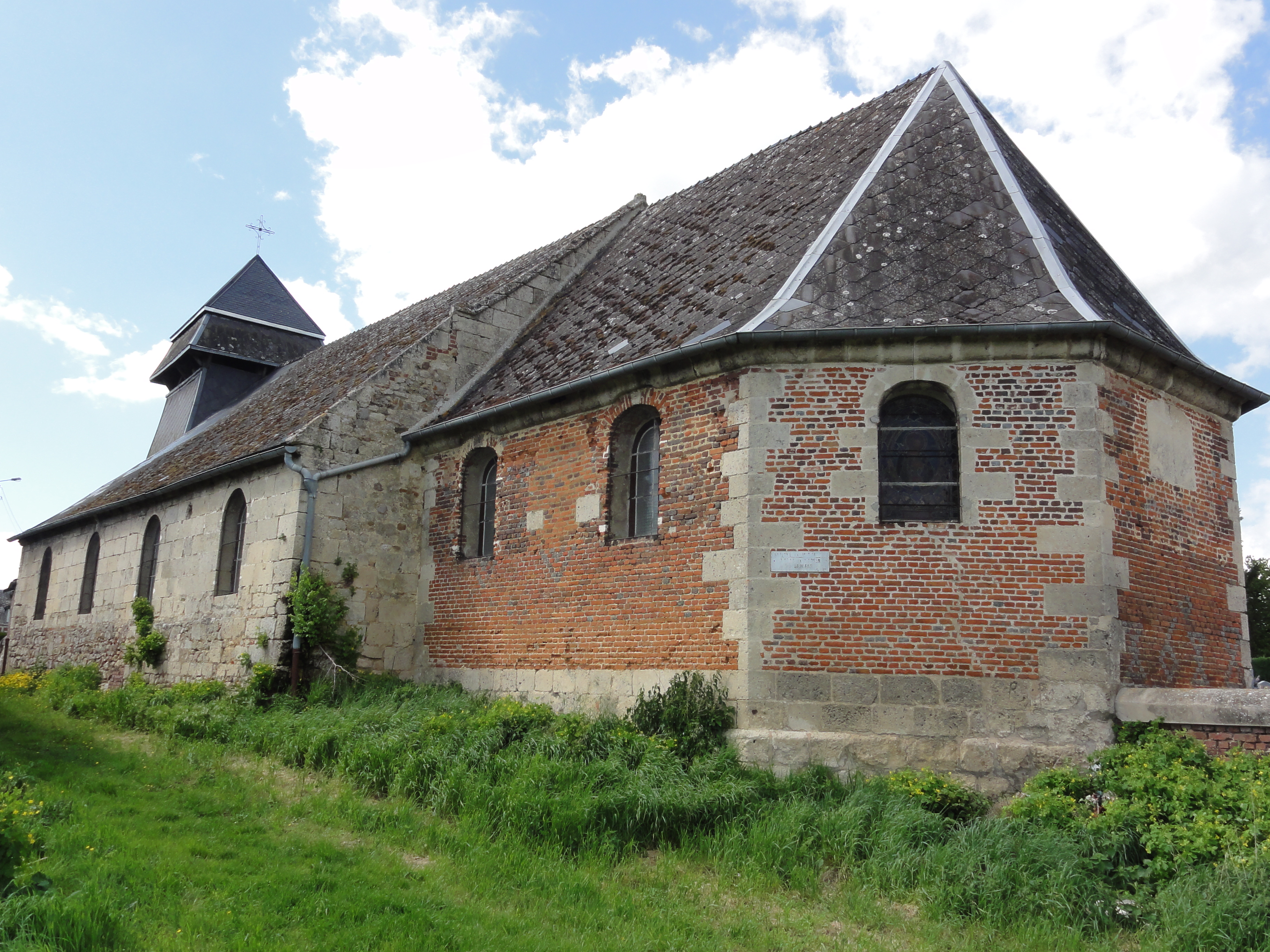 Bertaucourt-Epourdon (Aisne) église